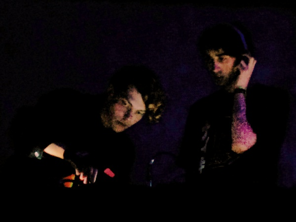 Sophie and A. G. Cook performing "Hey QT" at 1015 Folsom in San Francisco, California